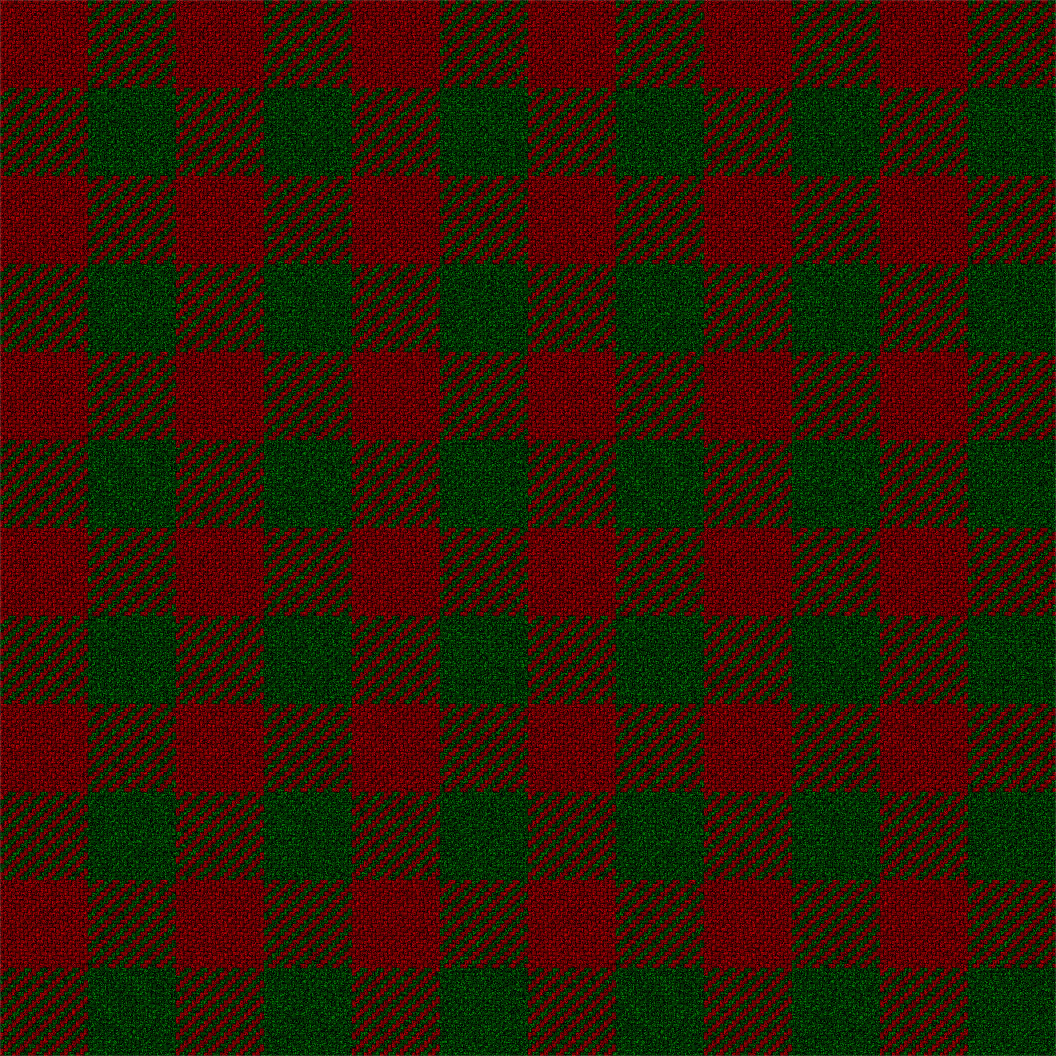 A representation of the Moncreiffe tartan, also known as the Maclachlan (old) tartan. In 1974 the chief of Clan Moncreiffe wrote to the chief of Clan Maclachlan for permission to use the tartan for his own clan. According to the then chief, "I took a fancy to an 18th century suit in a red and green diced tartan in the Edinburgh Castle Museum... and decided to adopt it as the Moncreiffe tartan with the red to represent the sacred tree from which we took our Gaelic Surname..." [1] Thread count used in image: 22 Red, 22 Green, 22 Red, 22 Green.